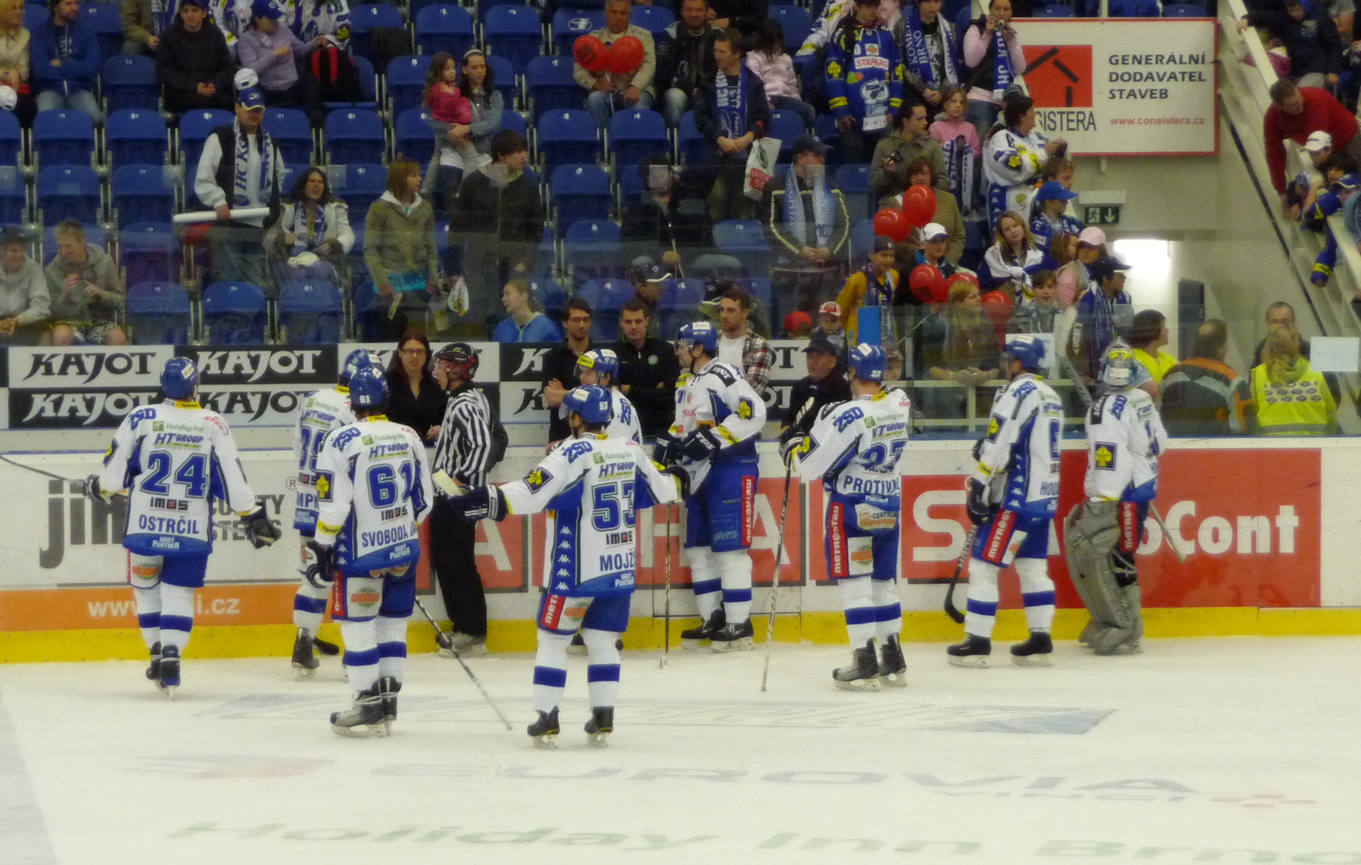 End of the match, friendly match between HC Kometa Brno and his Fan Club, Farewell the HC Kometa Brno with season 2010/2011 -10 -5 -3 -2 ◄ ► +2 +3 +5 +10